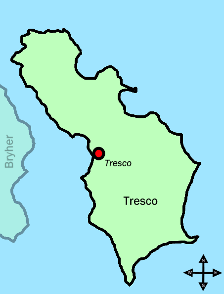 A map of the Scilly island of Tresco.